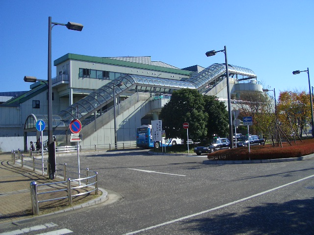 Mutsuai-Nichidaimae Station West Exit, on the Odakyu Enoshima Line, Fujisawa, Kanagawa 六会日大前駅